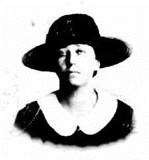 Lucy Imogen Stump Emory 1883-1978, wife of Major German H.H. Emory 1882-1918, KIA in France in World War I